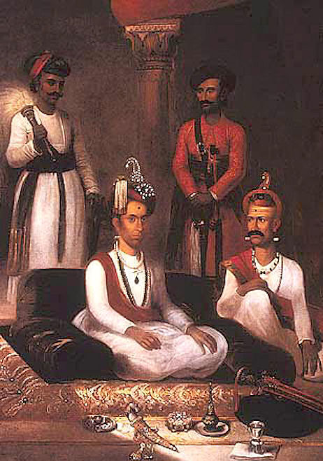 Madhu_Rao_Narayan_the_Maratha_Peshwa_with_Nana_Fadnavis_and_attendants_Poona_1792_by_James_Wales.